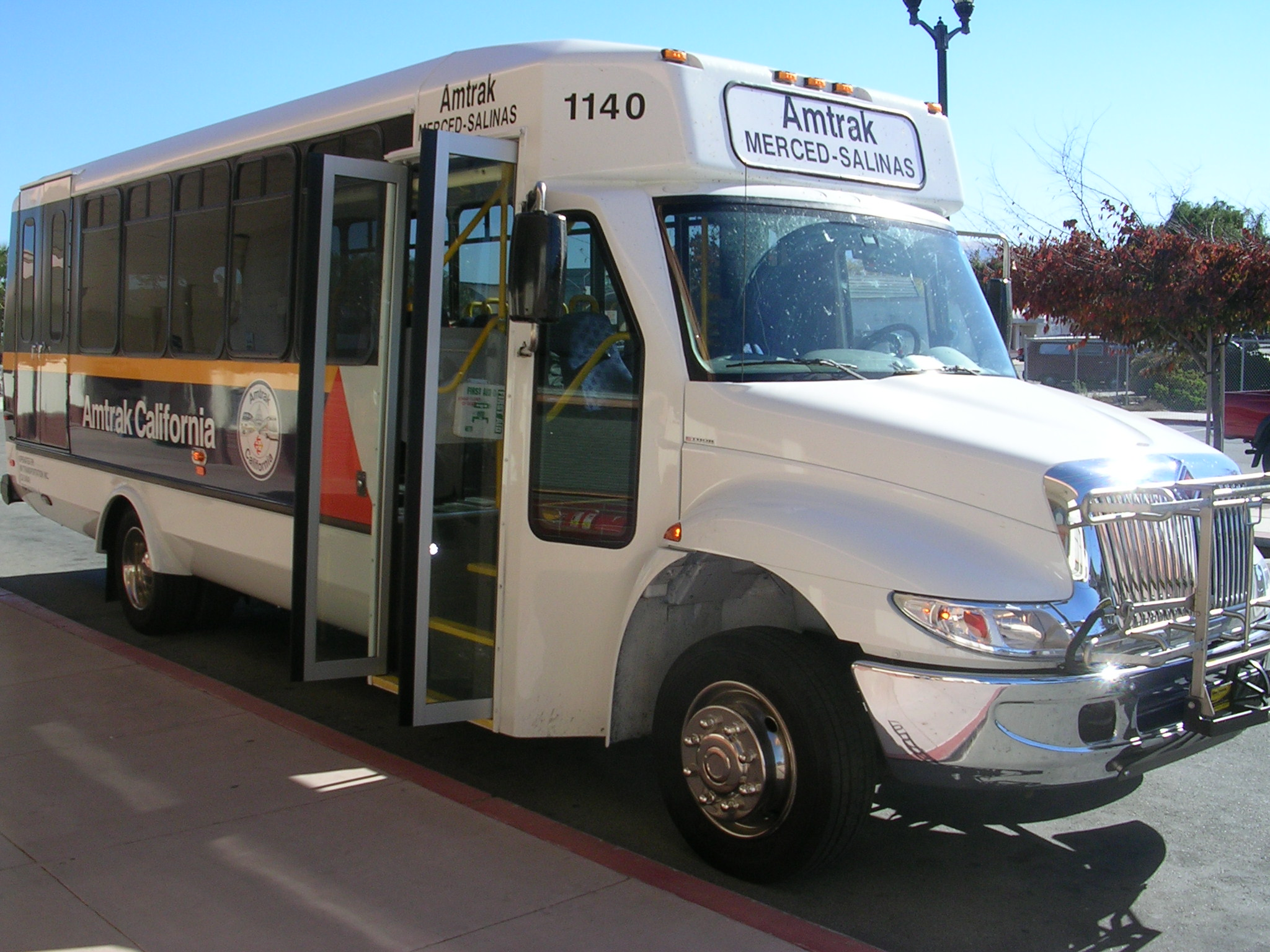 Author JC Collins of Reno, Nevada